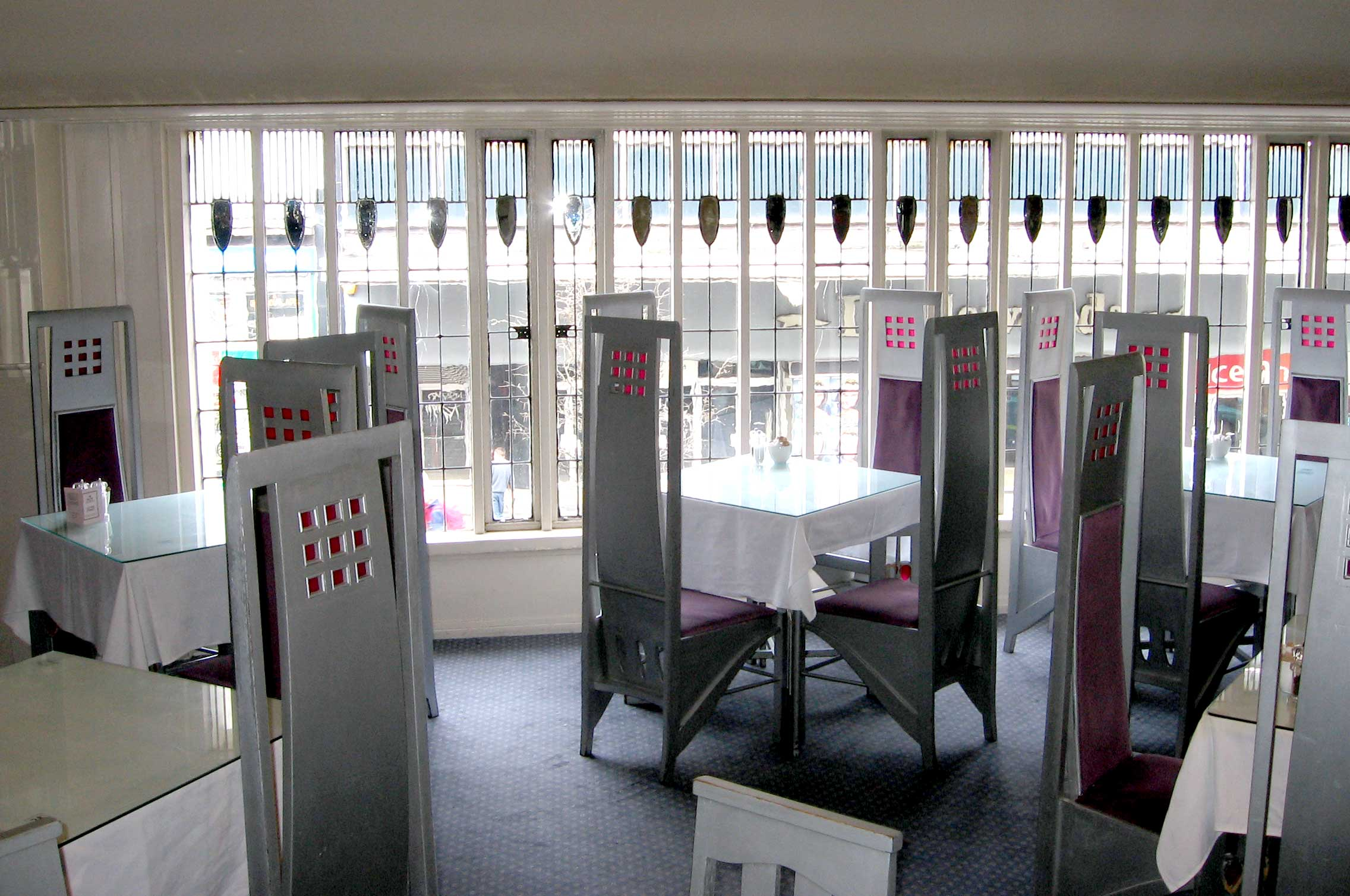 The Room de Luxe at The Willow Tearooms, Glasgow designed by Charles Rennie Mackintosh in collaboration with Margaret MacDonald for Catherine Cranston. photograph taken on 9 March 2006 by User:Dave souza. Any re-use to contain this licence notice and to attribute the work to User:Dave souza at Wikipedia.